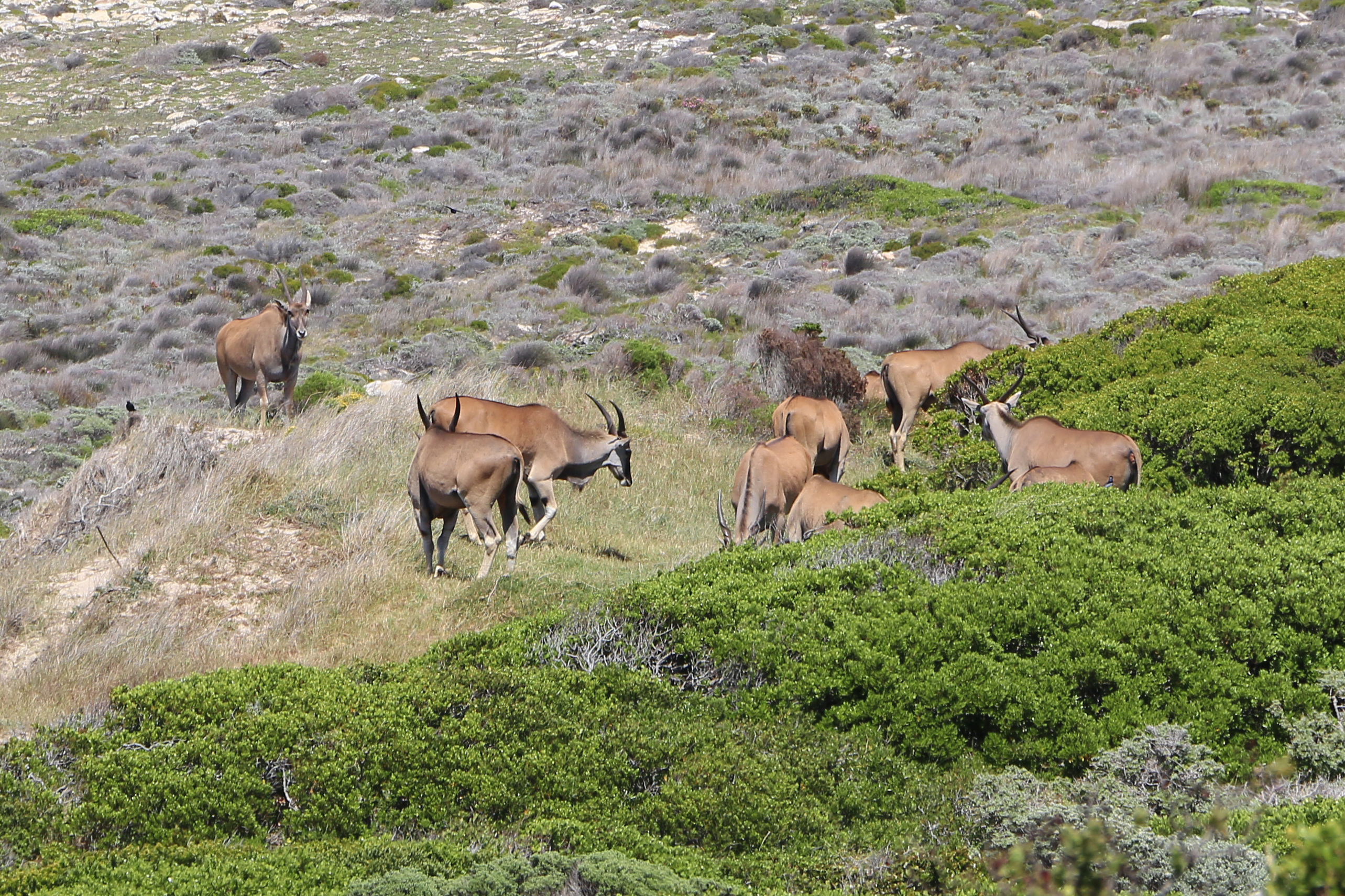 Common elands (Taurotragus oryx) at Cape of Good Hope, South Africa